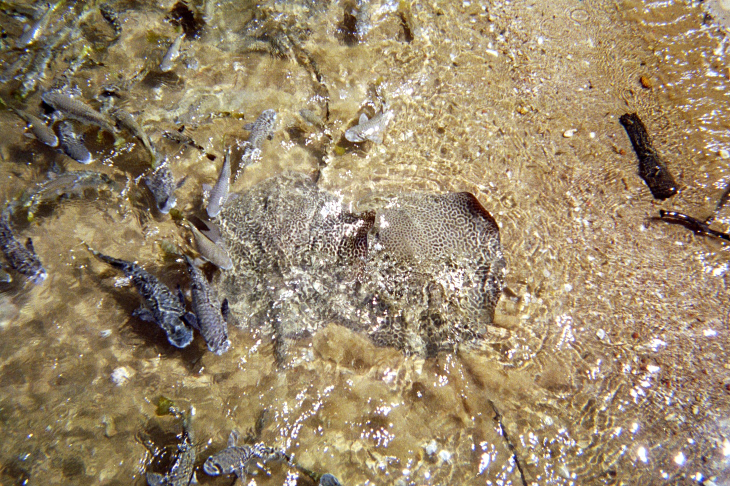 Honeycomb stingrays (Himantura uarnak) in Darwin